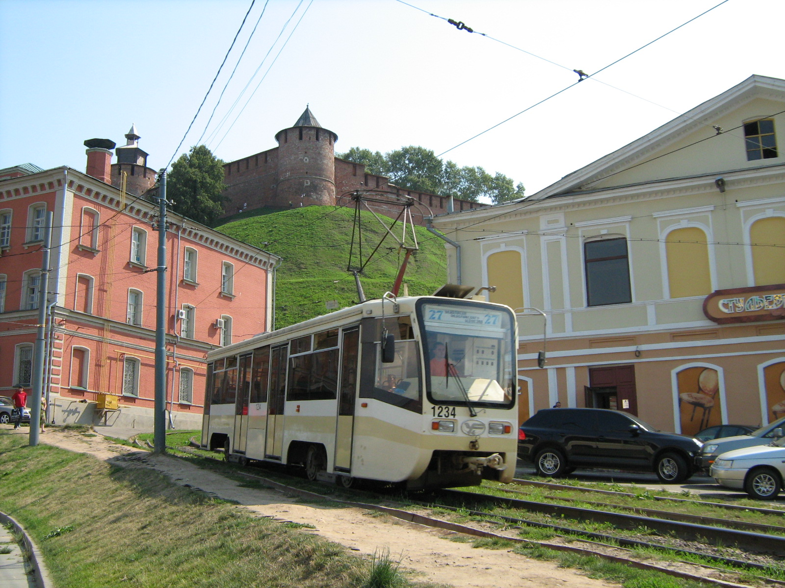 A streetcar going downhill by the Skoba Square in Nizhny Novgorod. The orange building to the left is former Bugrov's homeless shelter (now the office of the Federal Migration Service). In the background - Nizhny Novgorod Kremlin.